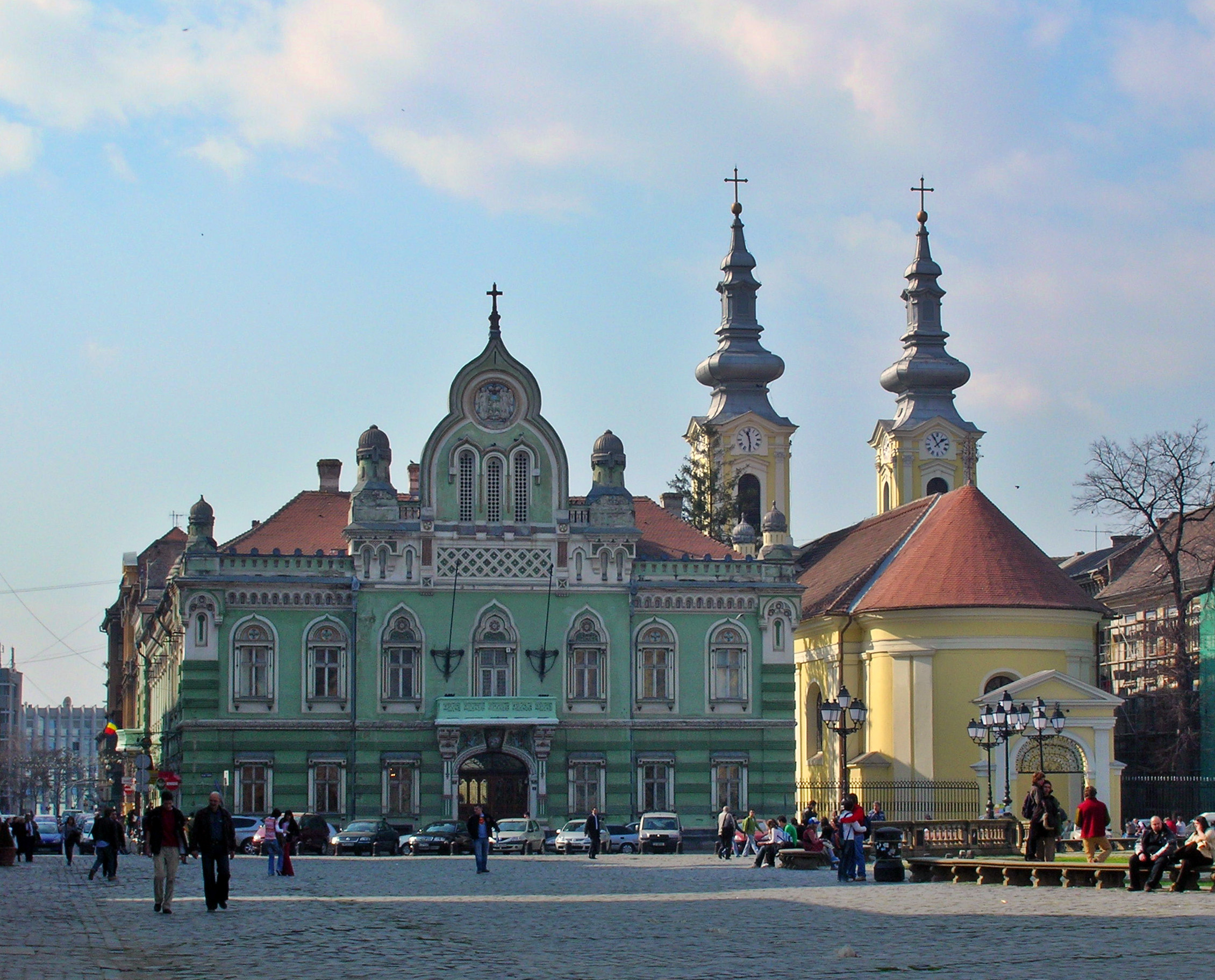 Piaţa Unirii. On the left - Serbian bishops palace, on the right - Serbian orthodox Cathedral. Timişoara (Romania).